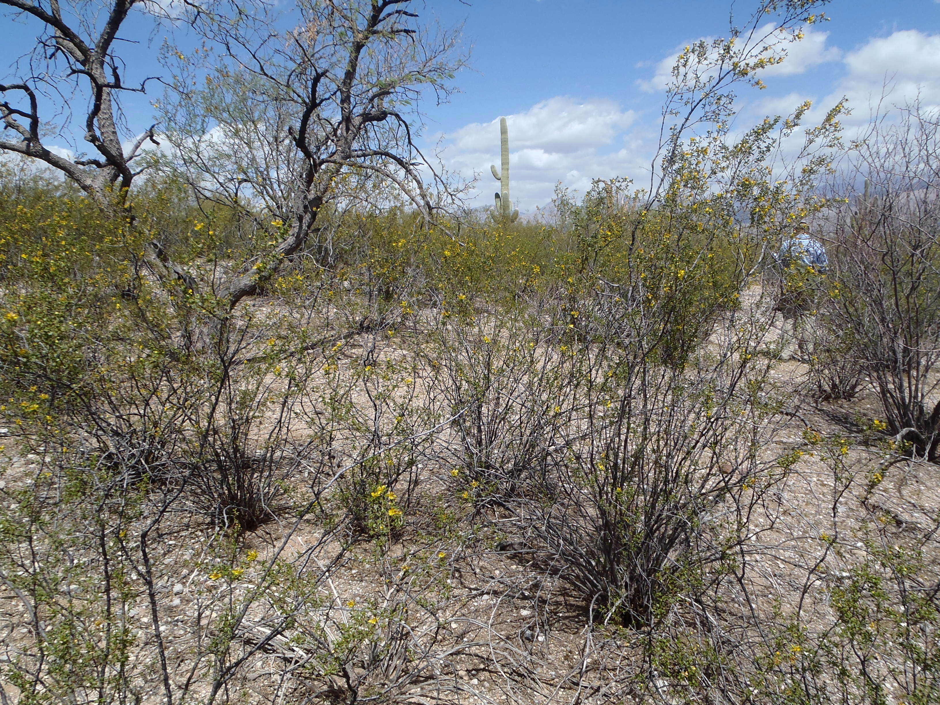 Desert biome with creosote, Saguaro National Park, Rincon Mtn District